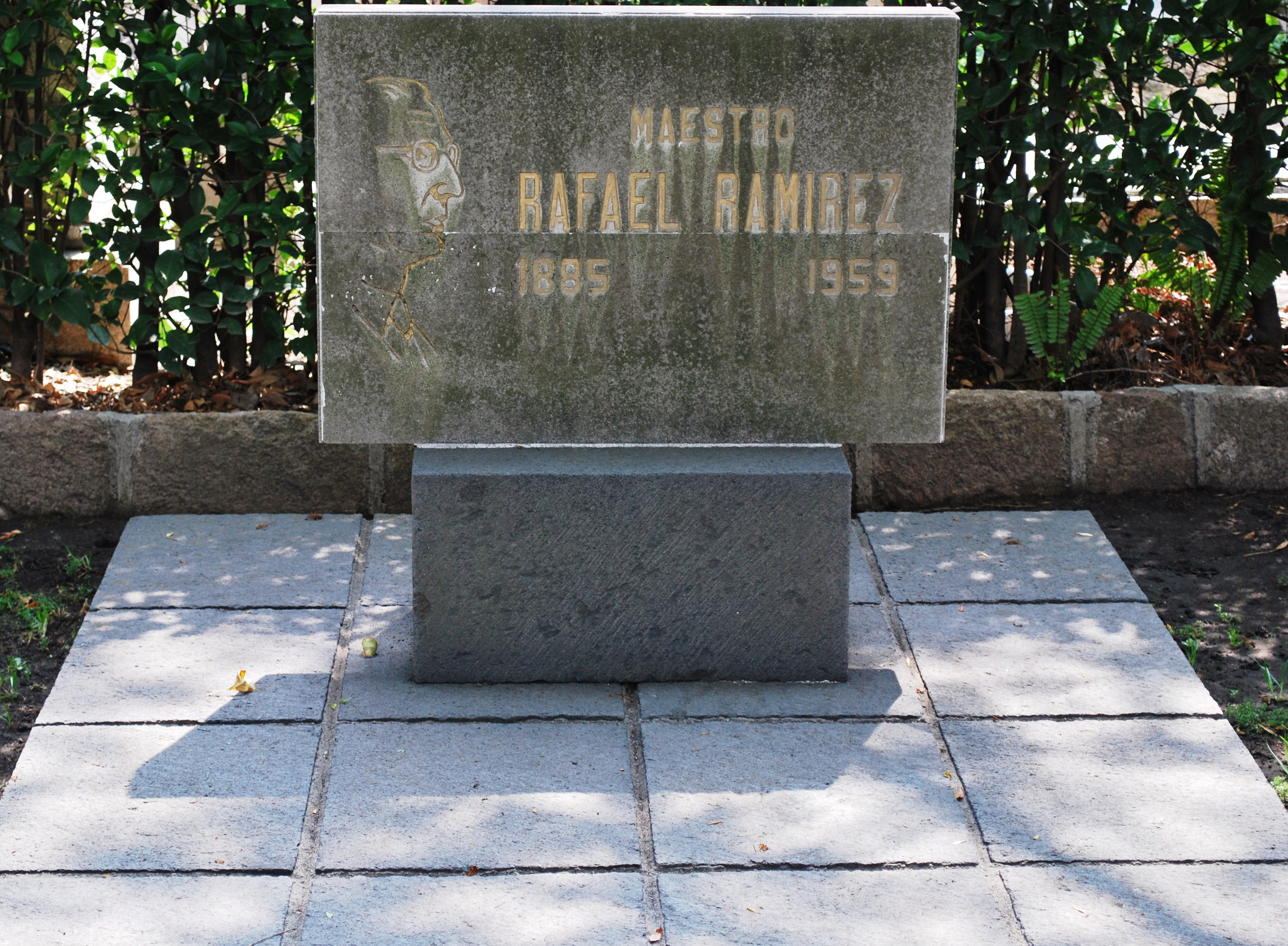 Tomb of Rafael Ramirez in the Panteon Civil de Dolores cemetery in Mexico City